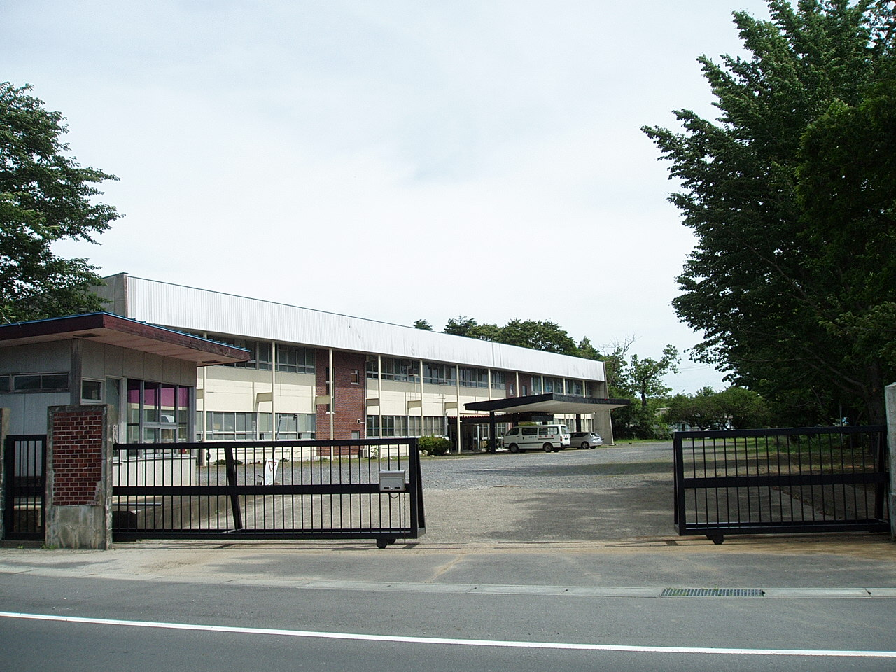 The factory of Tohtoh-shu, a Japanese liqueur manufacturer which filed for bankruptcy protection in 2003. Located in Kasumigaura (formerly Chiyoda), Ibaraki, Japan.